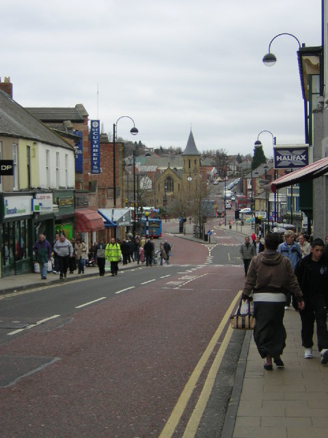 Chester-le-Street Front Street